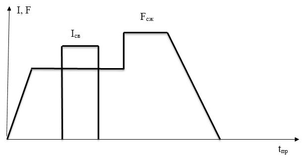 Циклограмма контактной стыковой сварки сопротивлением